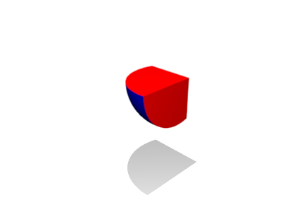 Summary A Boolean Intersect operation on a cube and a sphere. Modeled and Rendered in Blender. Made by Captain Sprite 22:16, 6 August 2006 (UTC).